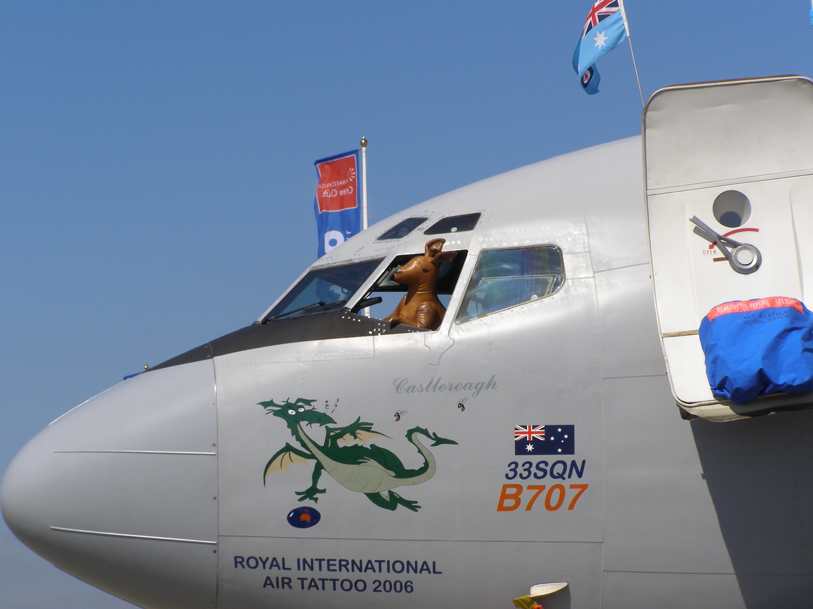 Royal Australian Air Force Boeing 707 (A20-261) on display at the Royal International Air Tattoo, RAF Fairford, England.